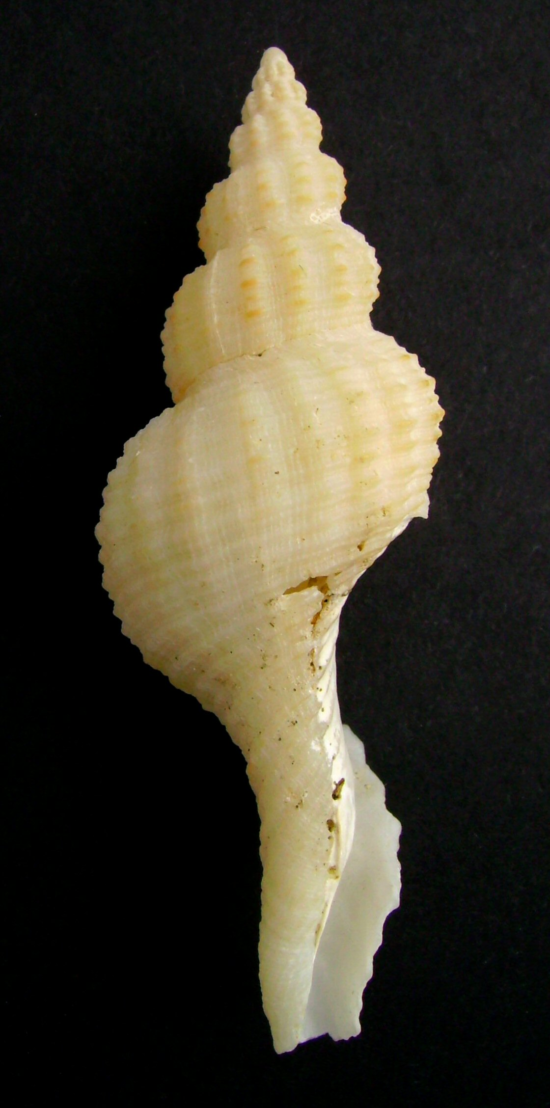 Glaphyrina caudata (damaged example) dredged from Pakiri Beach, north of Auckland, New Zealand. This work has been released into the public domain by its author, Graham Bould. This applies worldwide.In some countries this may not be legally possible; if so:Graham Bould grants anyone the right to use this work for any purpose, without any conditions, unless such conditions are required by law. .